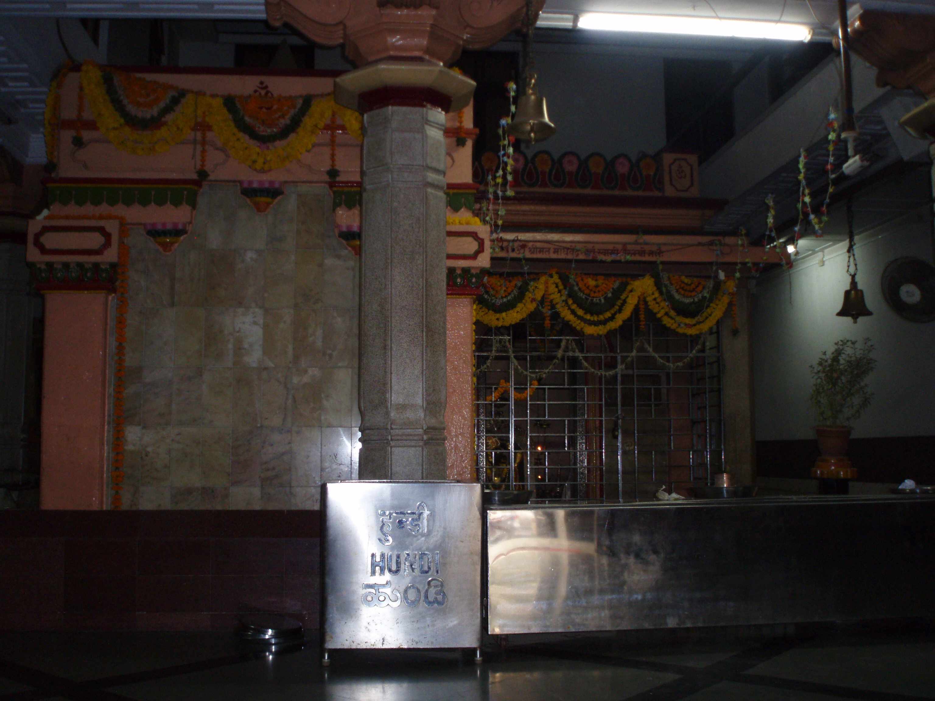 This is the interior of the Shree Kashimath Sansthan, Walkeshwar Branch, Mumbai India. This branch of the kashimath was established in the early 18th century